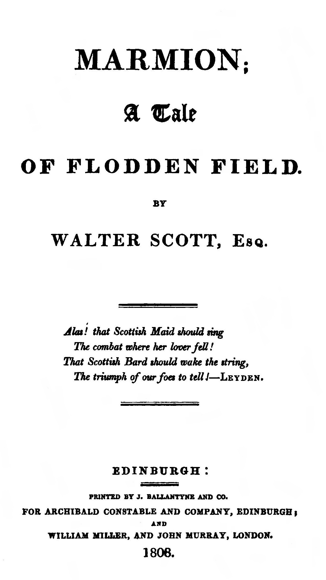 Marmion 1st ed title pg